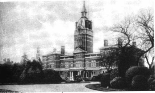 Old photograph of Banstead Mental Hospital; no indication of any copyright